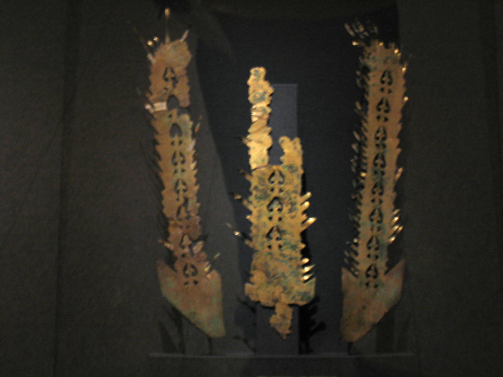 Goguryeo bronze king crown, 5th century